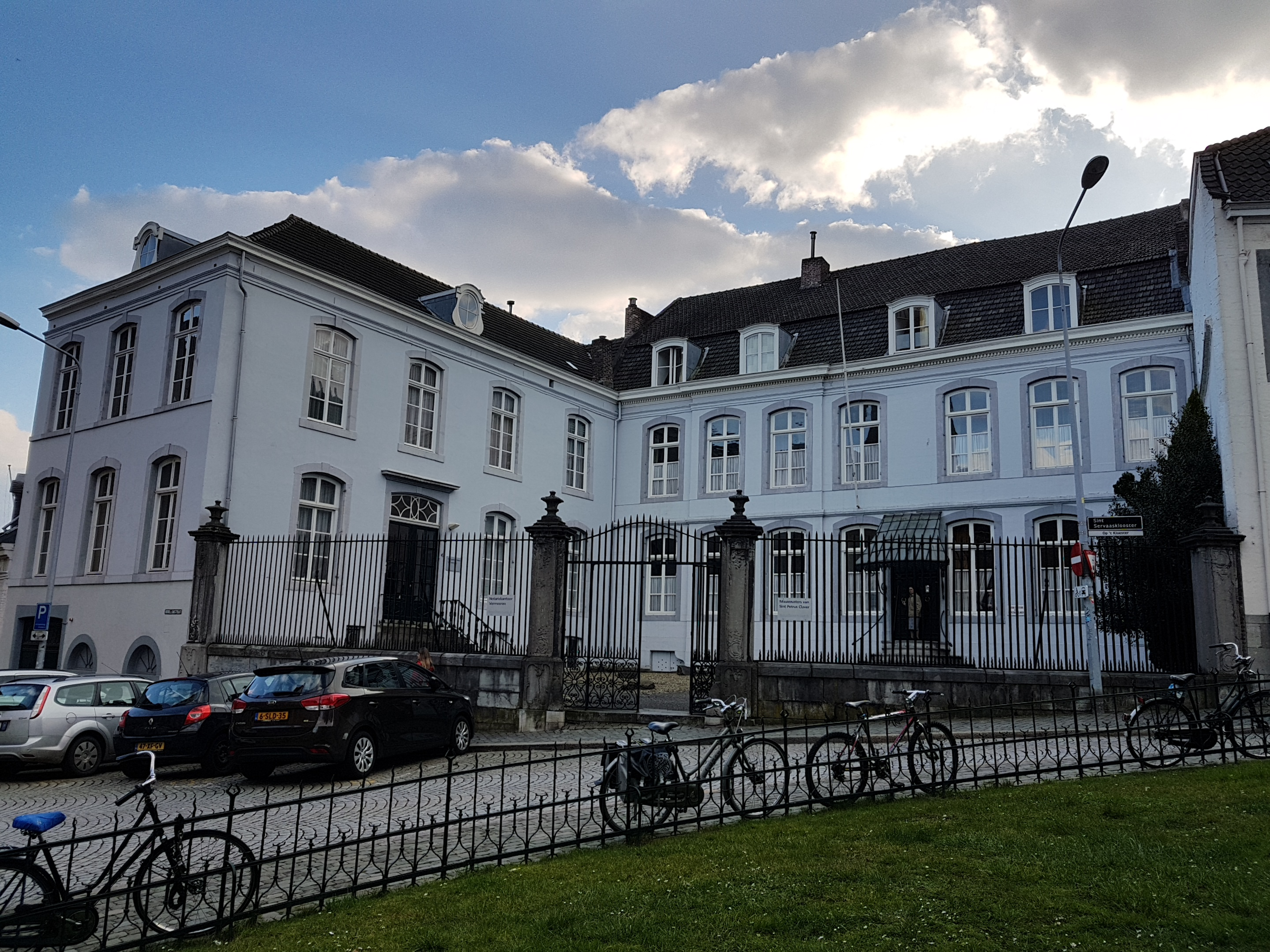 View of the left wing and central part of Poort van Eynenberg, Bouillonstraat 4-6, in the centre of Maastricht, Netherlands. The central part is the home of the Missionary Sisters of Saint Peter Claver.